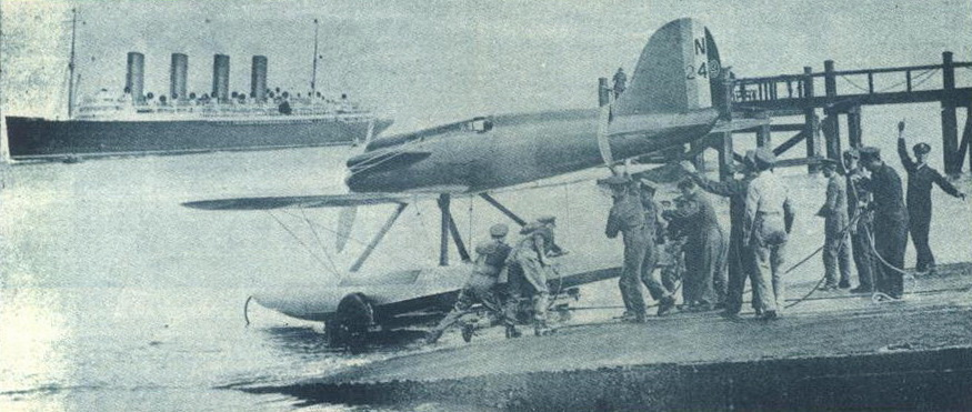 Racing seaplane Gloster VI developed for the 1929 Schneider Trophy (aircraft registration N249)